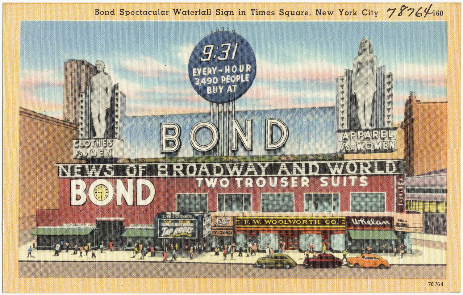 File name: 06_10_005669 Title: Bond spectacular waterfall sign in Times Square, New York City Created/Published: Acacia Card Company, 258 Broadway, New York 7, N.Y. Date issued: 1930 - 1945 (approximate) Physical description: 1 print (postcard) : linen texture, color ; 3 1/2 x 5 1/2 in. Genre: Postcards Subjects: Commercial facilities Notes: Title from item. Collection: The Tichnor Brothers Collection Location: Boston Public Library, Print Department Rights: No known restrictions